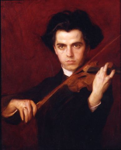 Portrait of Jan Kubelík